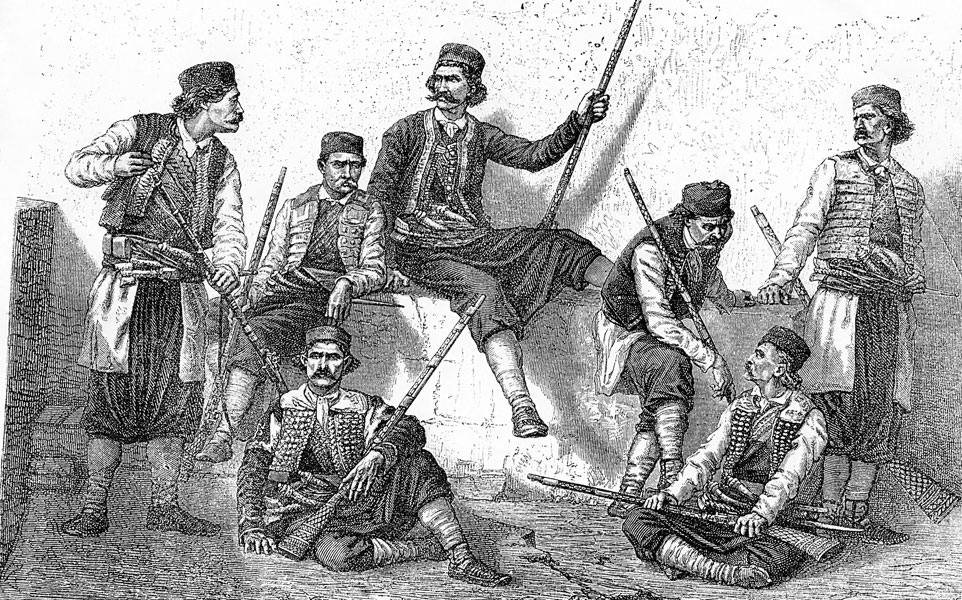 Krivošije. newspaper xylograph.